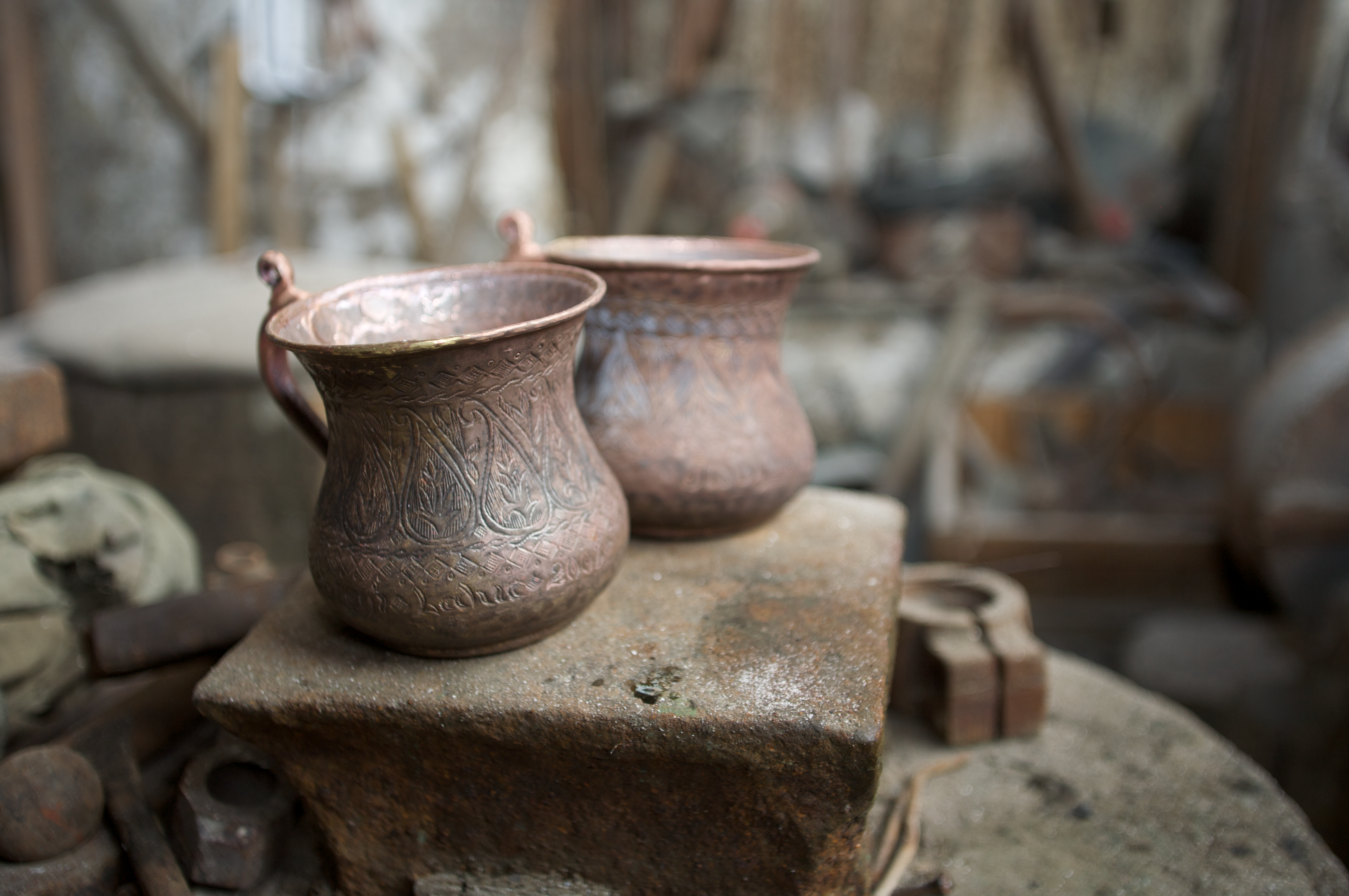 Handwork coppery in Lahic, Azerbaijan